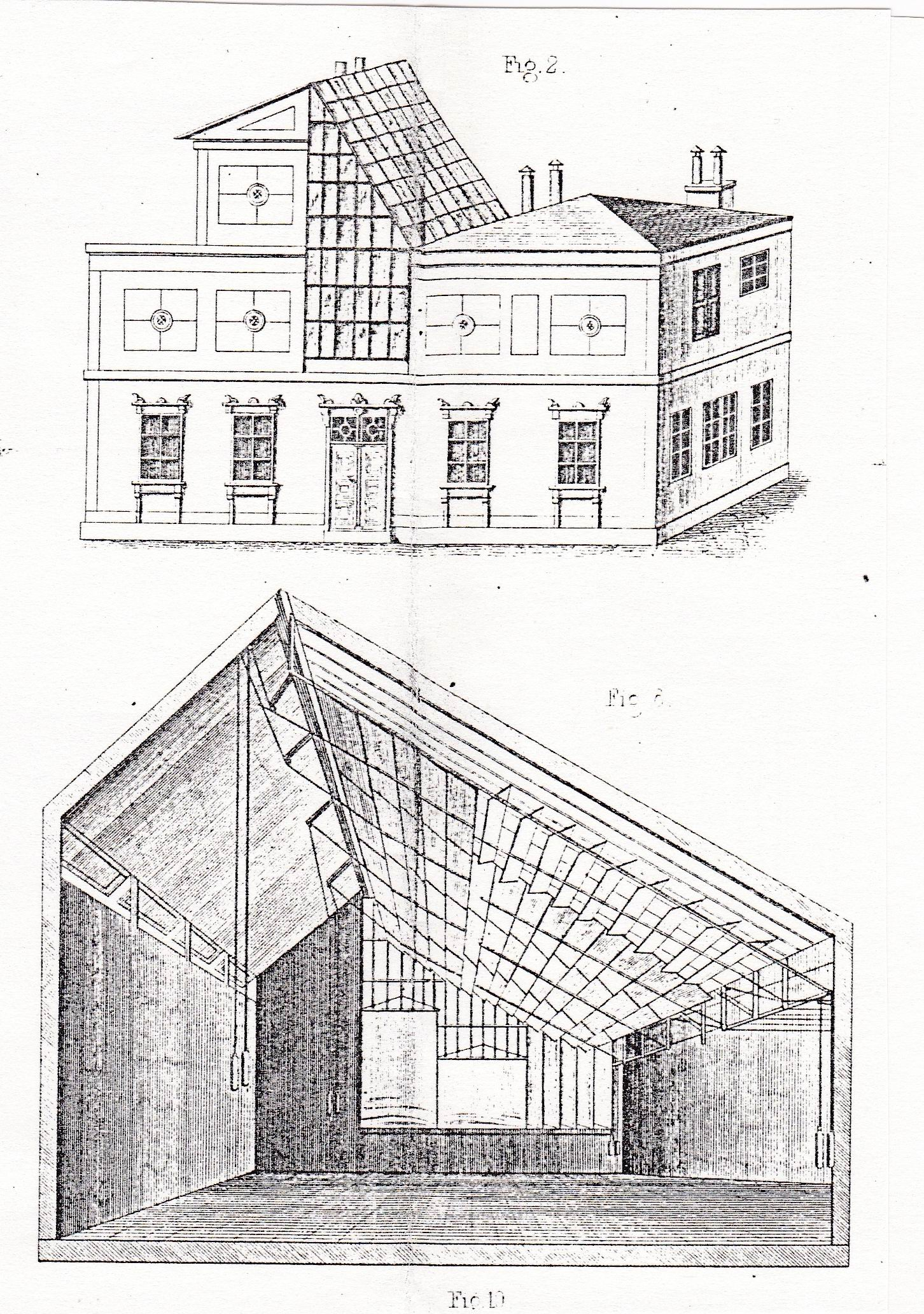 Glasshouses of Photo-Studio - 1869 Otto Bühler, Atelier und Apparat des Photographen, Weimar 1869, pl. III.